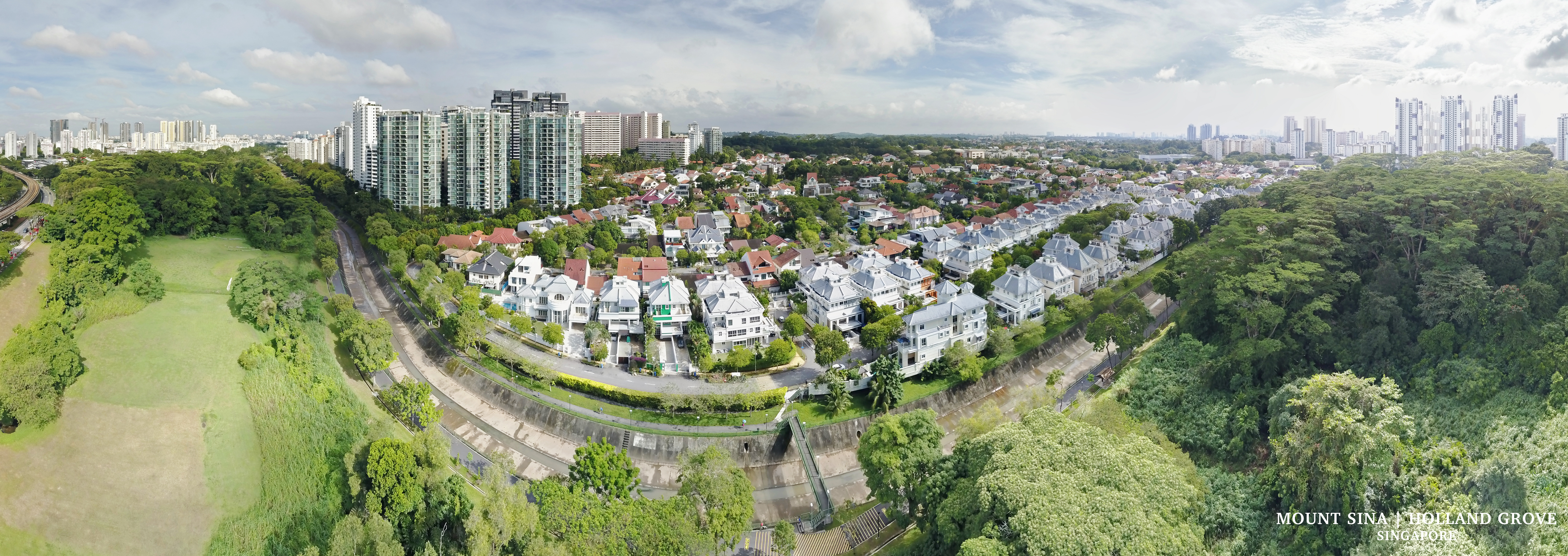 Mount Sinai Singapore